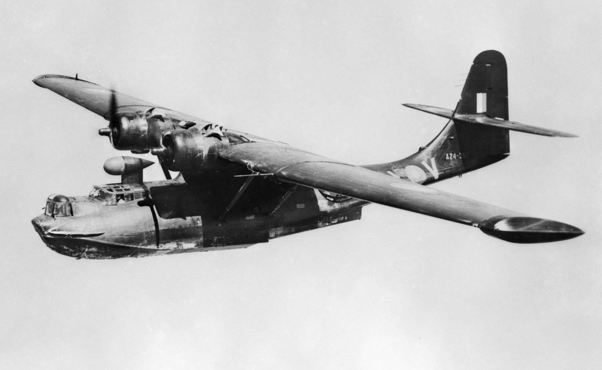 RAAF CONSOLIDATED CATALINA FLYING BOAT (A24-362) OF NO 43 SQUADRON.